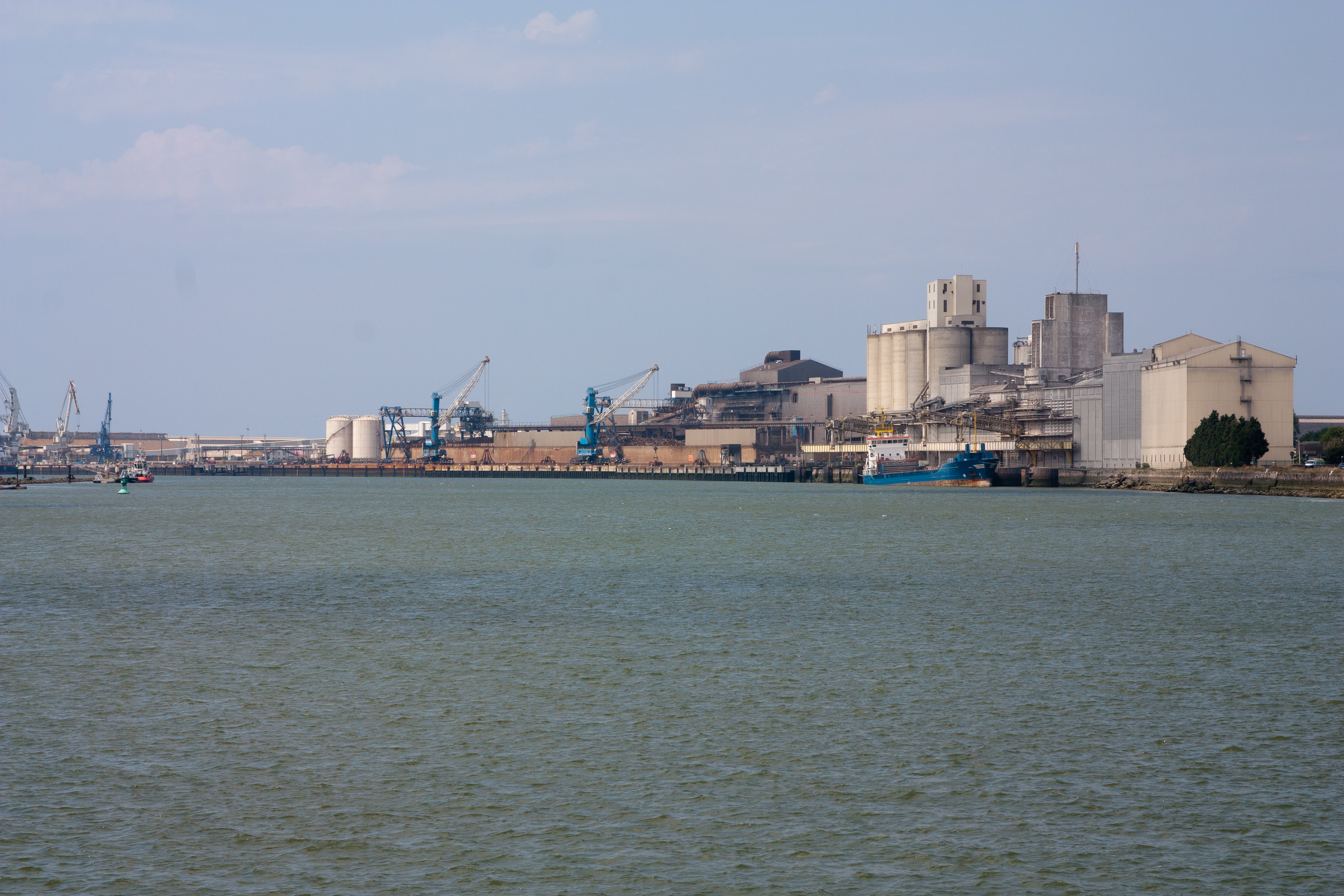 Corn silos and foundries Basco-Viscaïnas of Boucau.